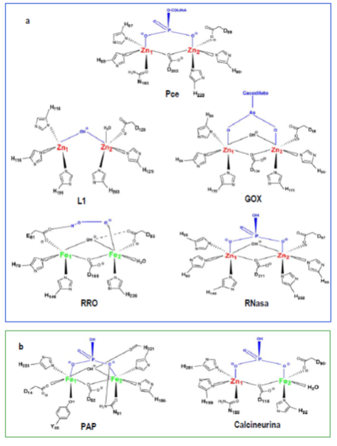 Esterases Structures